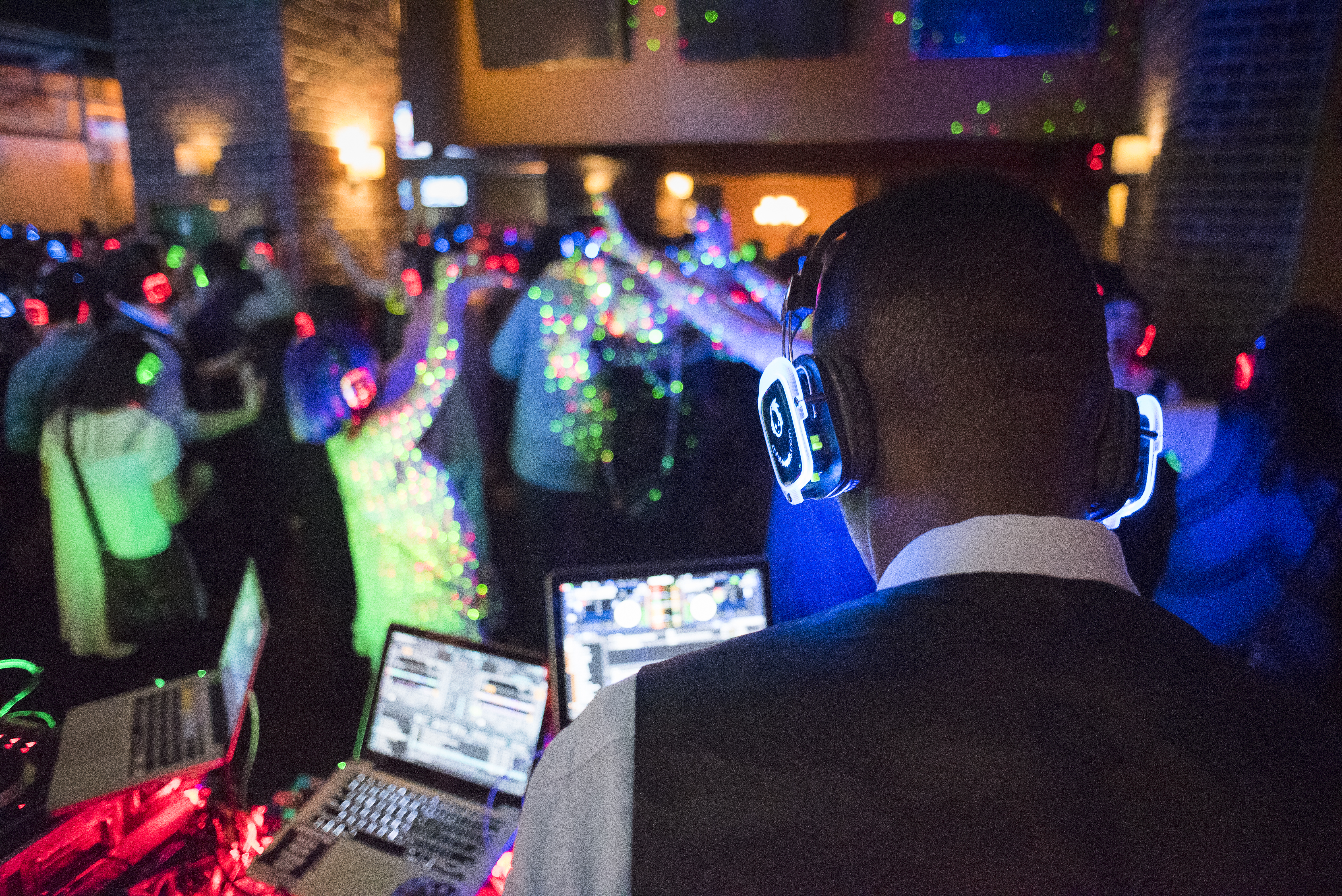 QuietClubbing Gatsby Party in New York, on April 8, 2016